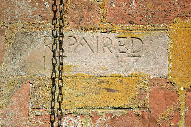 A date stone at Lergerwood Parish Church A stone inscribed REPAIRED 1717 set into the west gable with a bell chain hanging down from the belfry.